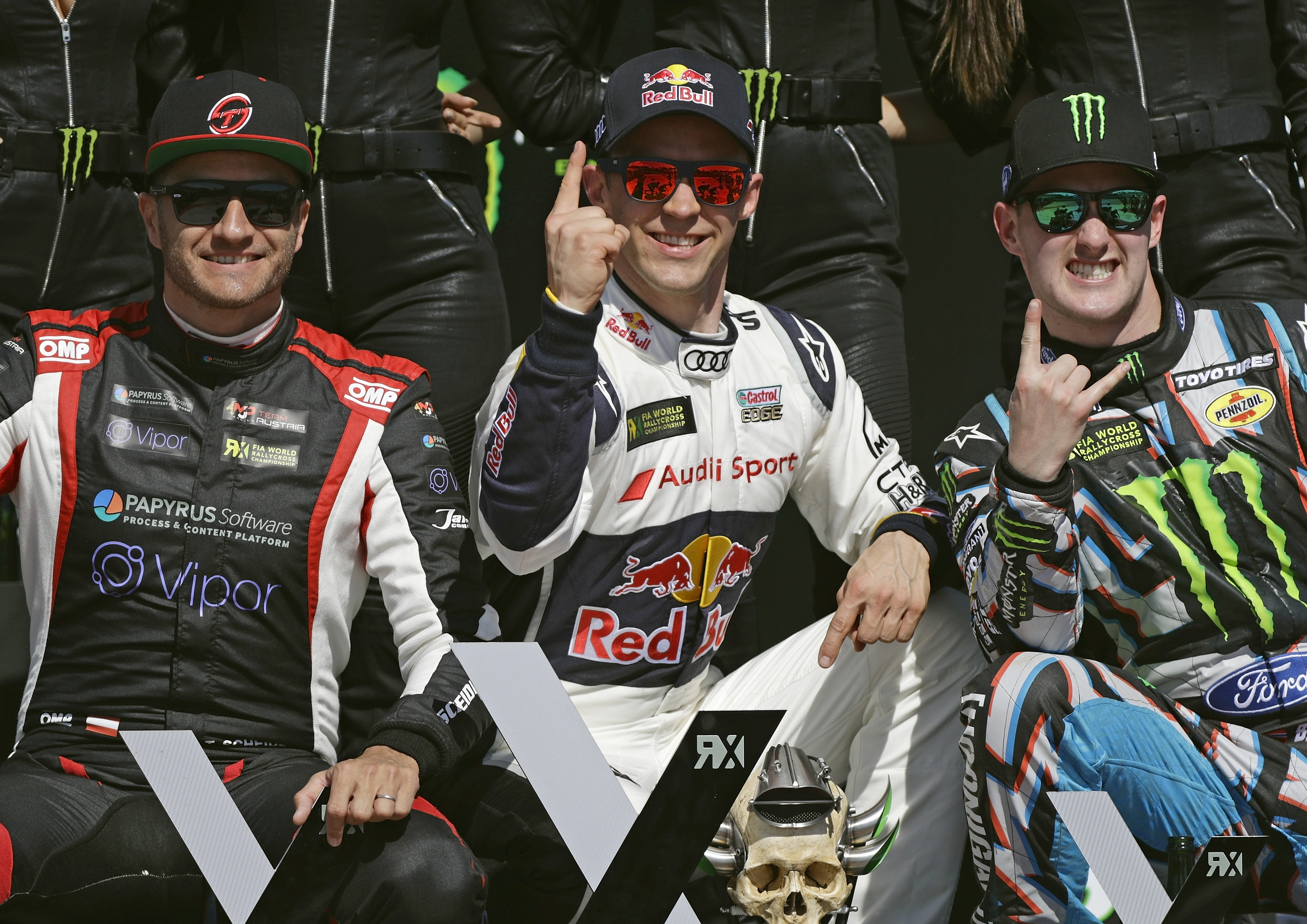 2017 FIA World Rallycross Championship // Round 01, Barcelona // Credit: EKS/Bodo Kraehling